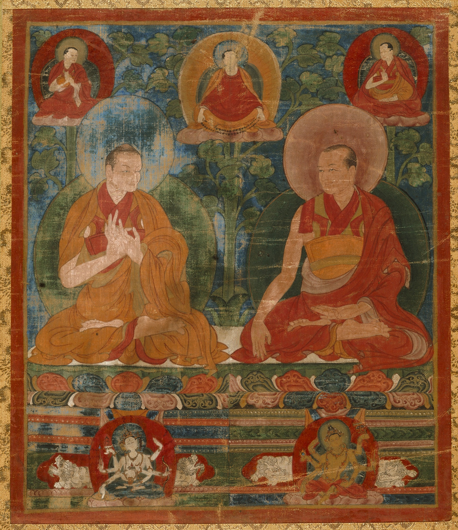 Central Tibet, circa 1700 Paintings Mineral pigments on cotton cloth From the Nasli and Alice Heeramaneck Collection, Museum Associates Purchase (M.77.19.10) South and Southeast Asian Art